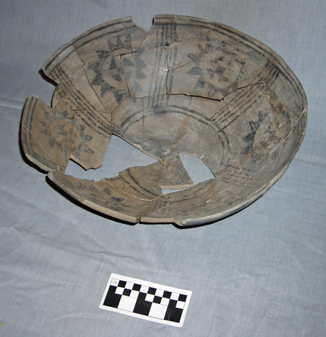 Rio Grande Ware: Wiyo Black-on-white shallow bowl from LA 908 (Tsama). Restored.